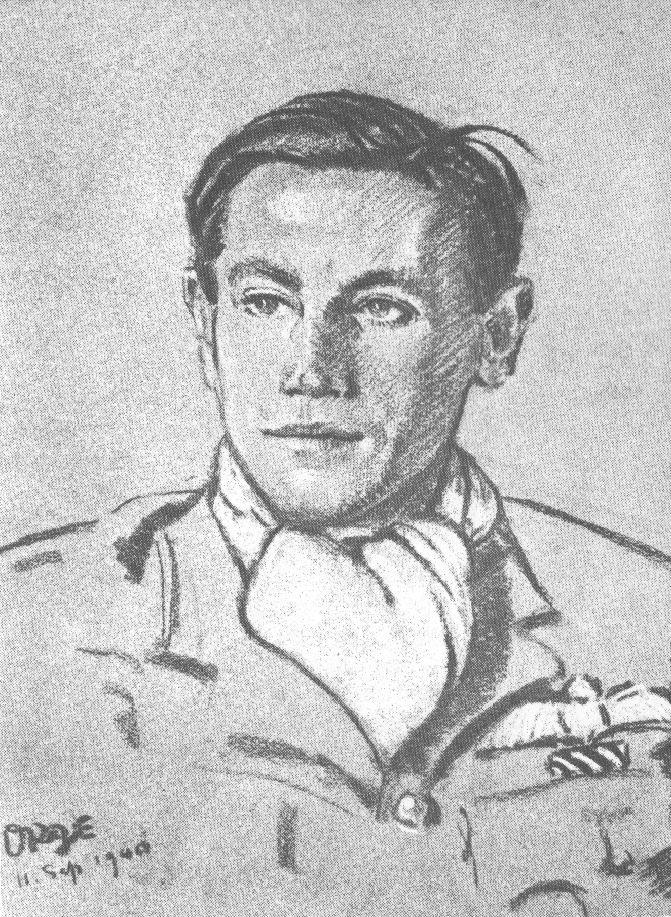 Harold Bird-Wilson portrait by Cuthbert Orde, 11 Sept 1940